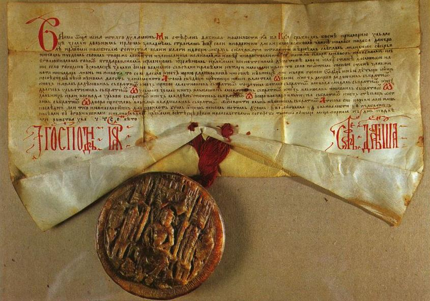 Deed of donatio by King Dabiša